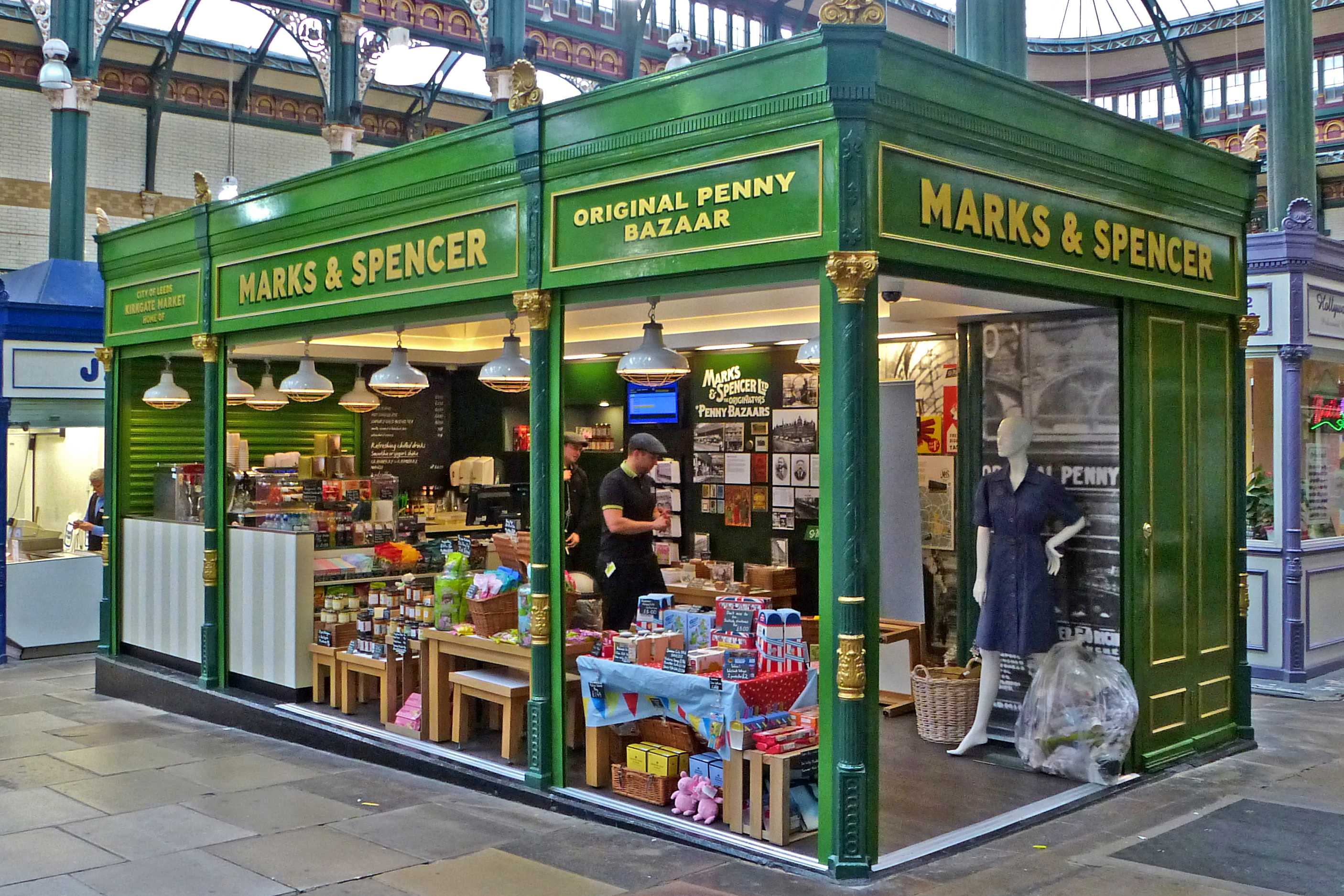 Marks & Spencer original penny bazaar, a mockup in the Kirkgate Markets, Leeds, West Yorkshire. Taken by Flickr user:Tim Green aka atouch on Monday the 24th of June 2013.